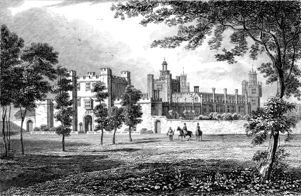 The Palace of Theobalds